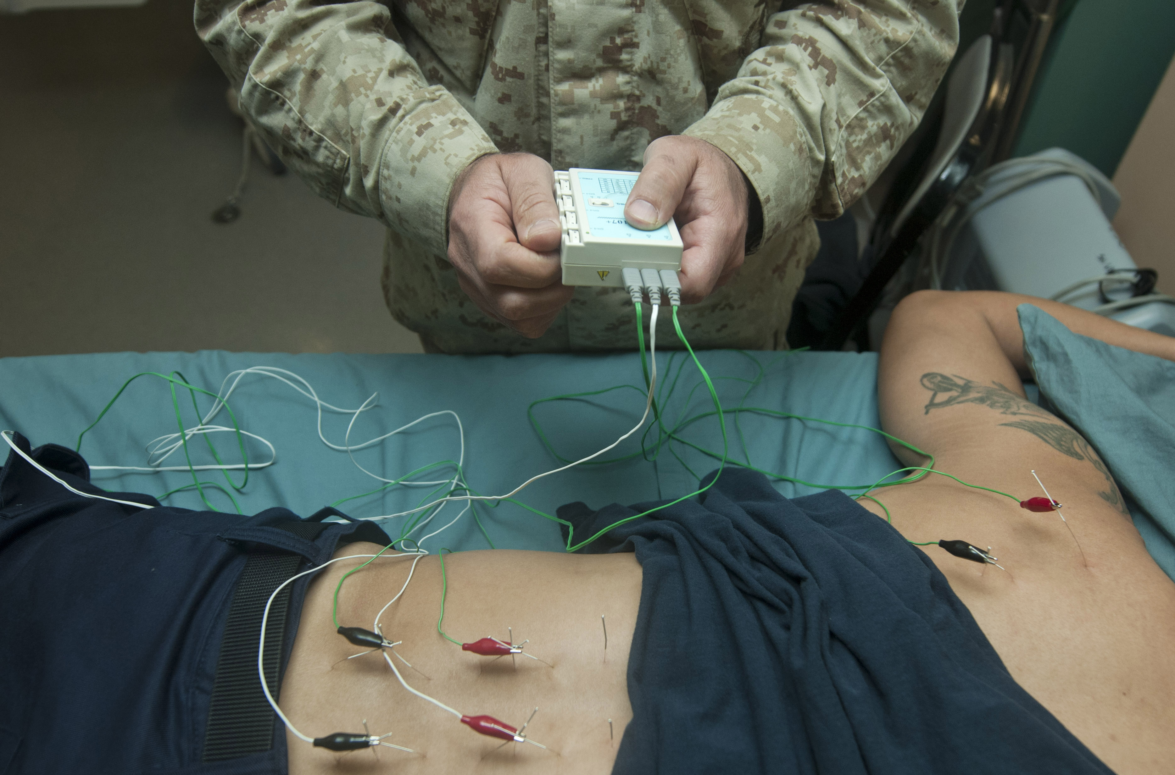 ARABIAN GULF (Feb. 16, 2012) Cmdr. Yevsey Goldberg conducts an acupuncture procedure on a patient aboard the amphibious transport dock ship USS New Orleans (LPD 18). New Orleans and embarked Marines assigned to the 11th Marine Expeditionary Unit are deployed as part of the Makin Island Amphibious Ready Group, supporting maritime security operations and theater security cooperation efforts in the U.S. 5th Fleet area of responsibility. (U.S. Navy photo by Mass Communication Specialist 2nd Class Dominique Pineiro/Released) 120216-N-PB383-330 Join the conversation